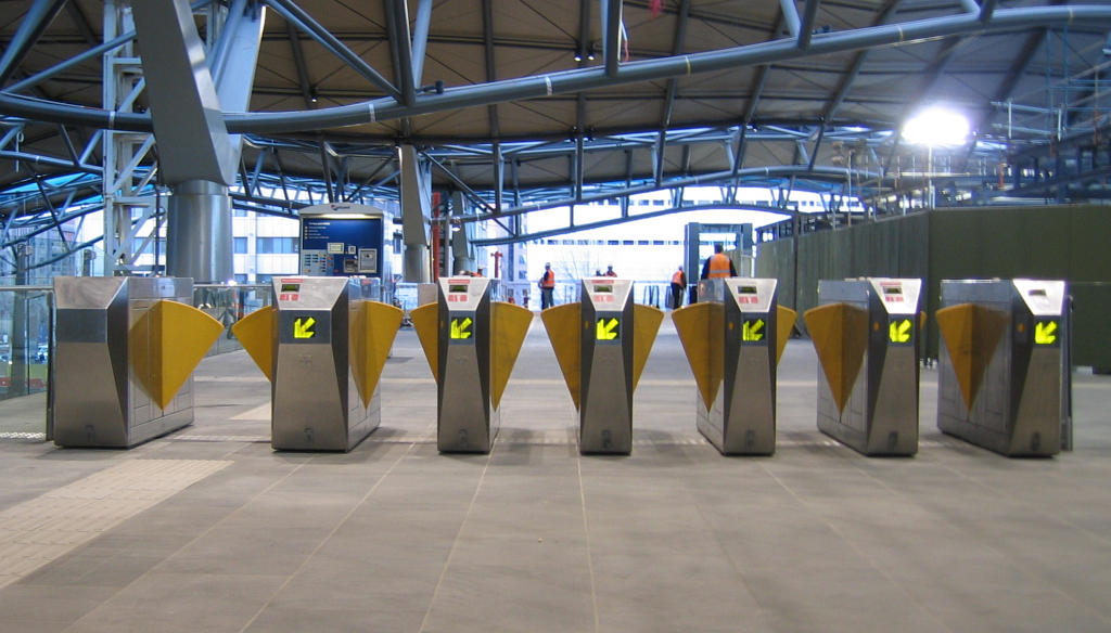 Metcard ticketing barriers / validators / turnstiles - Melbourne, Australia